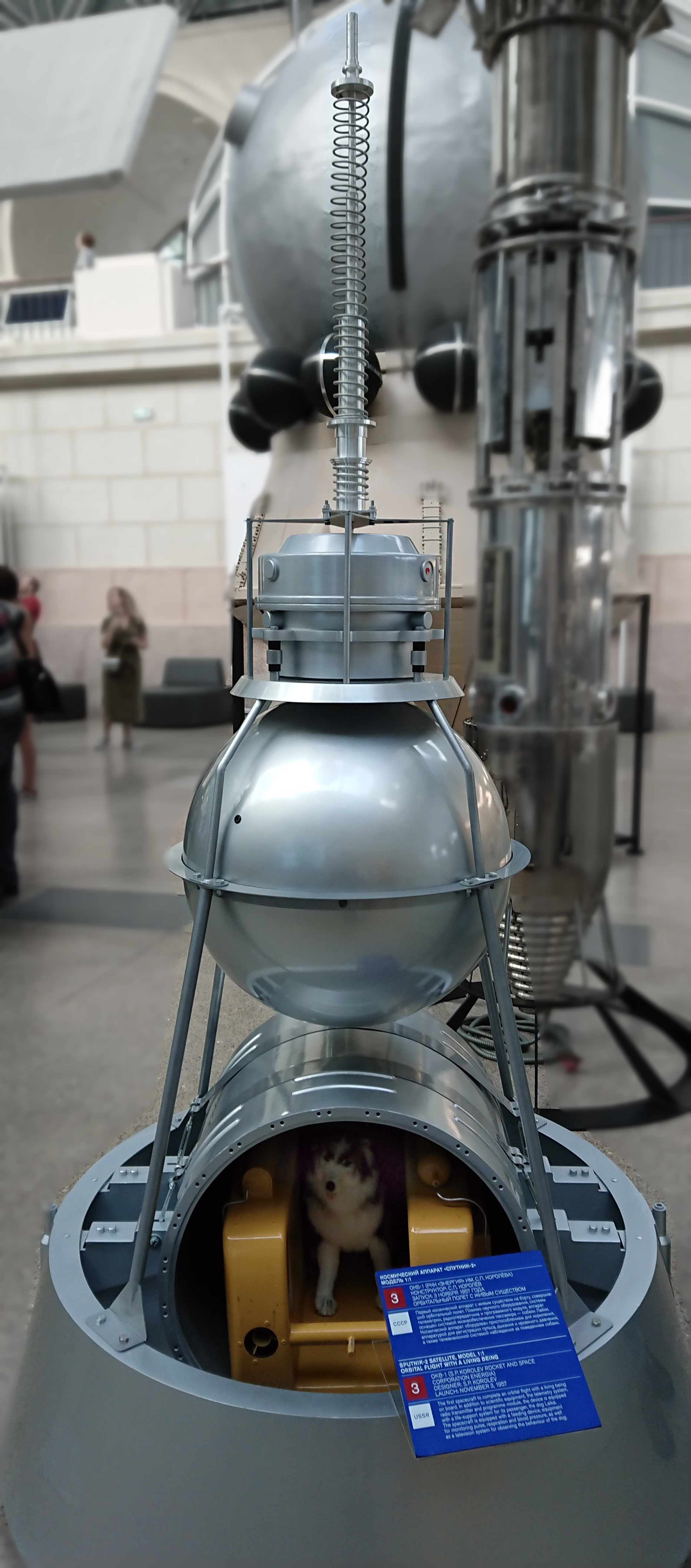 Sputnik-2 sattelite, model 1:1. Russia, Moscow, BDNKh, Pavilion № 32 "Cosmos".